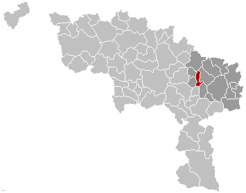 Map, municipality belgium Chapelle-lez-Herlaimont